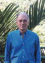 Imagem de um pesquisador retirada de sua pagina no IMPA para colocação na pagina do mesmo aqui na Wikipédia.